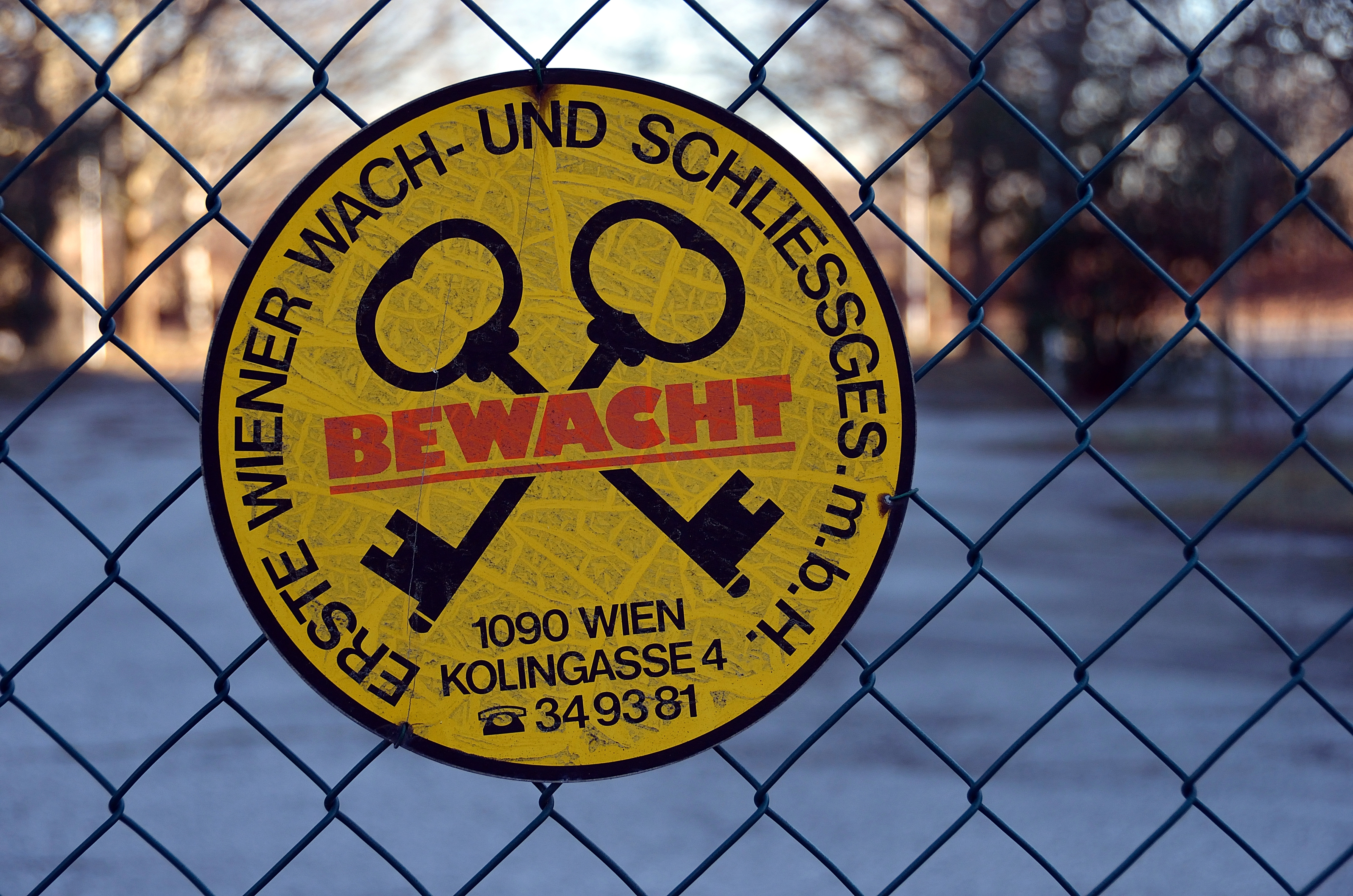 The building was created for Eumig in 1956. After insolvency of Eumig, the building was used by Palmers until 2014. It is located in the industry zone of Wiener Neudorf.